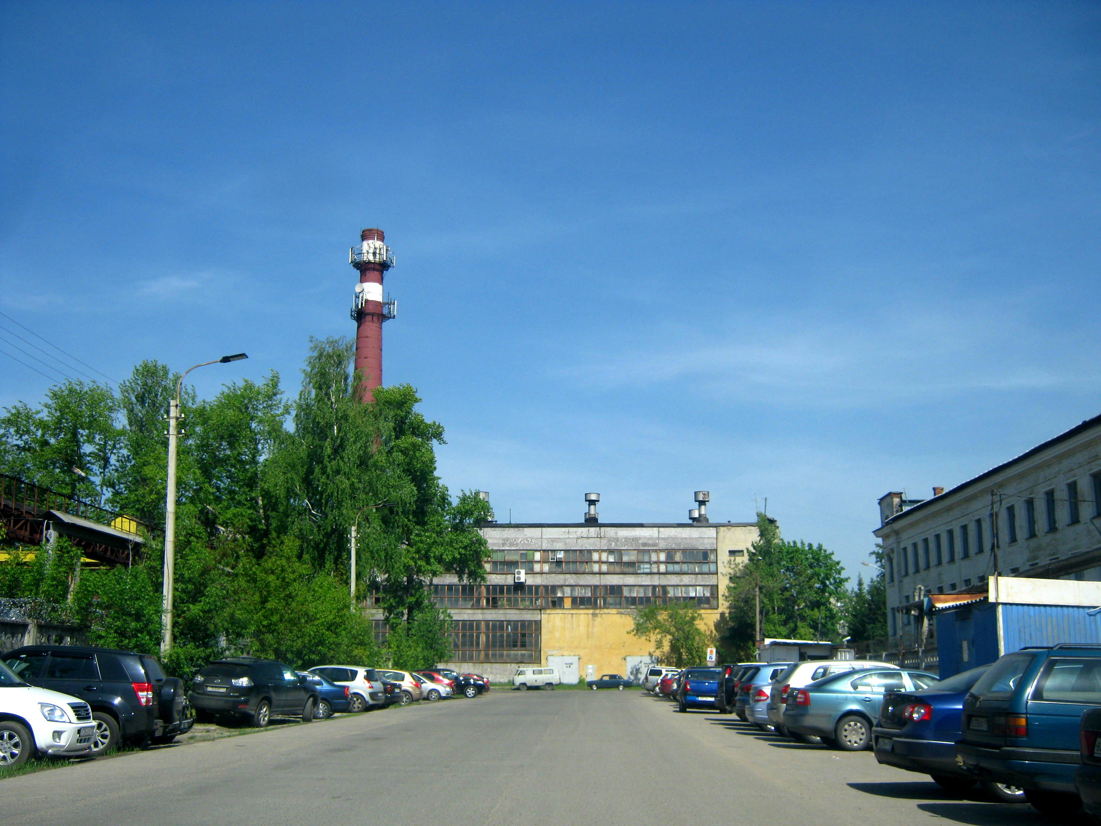 Строительный проезд (Электросталь)